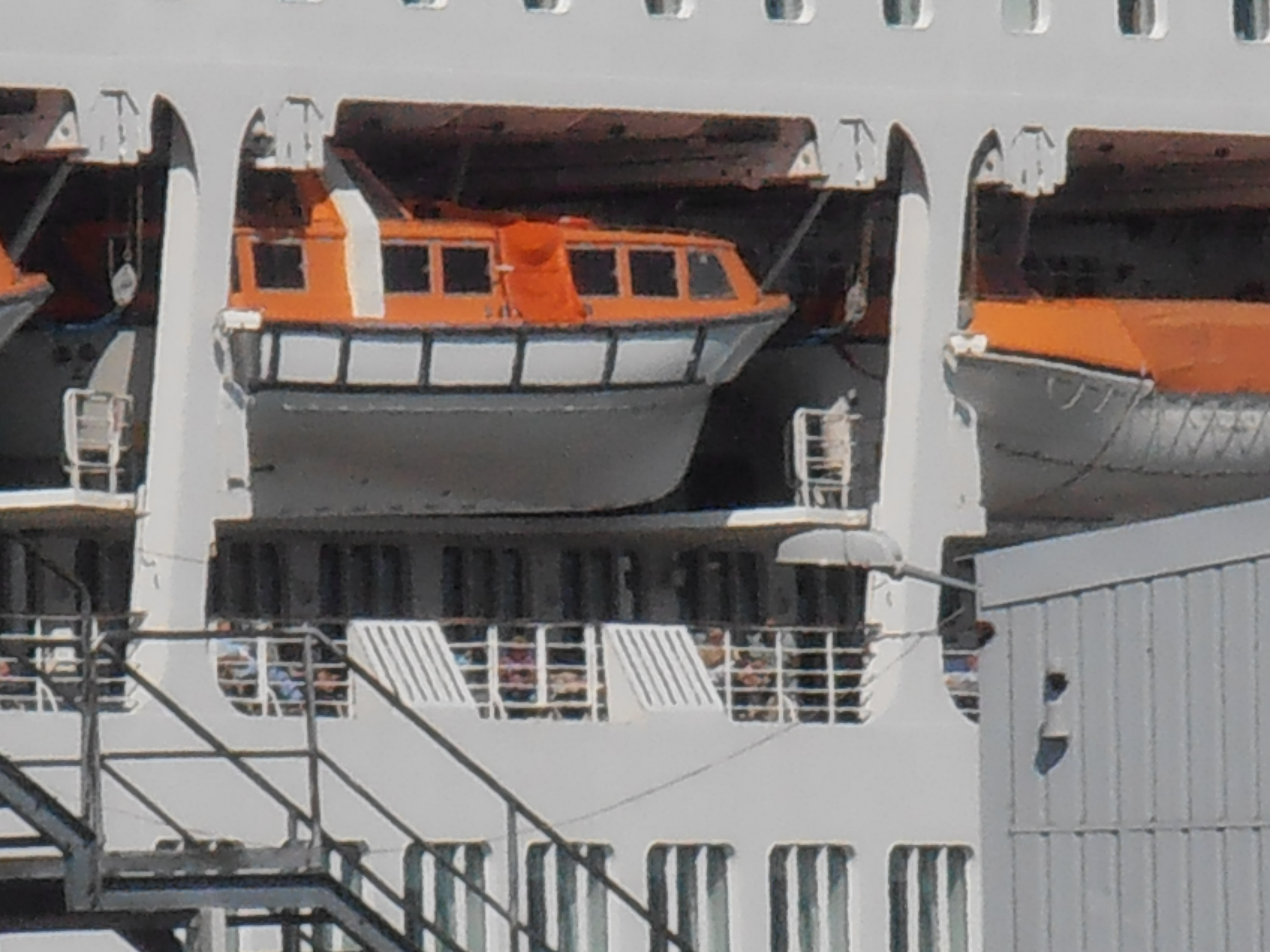 Oriana Lifeboat Tallinn 13 August 2012